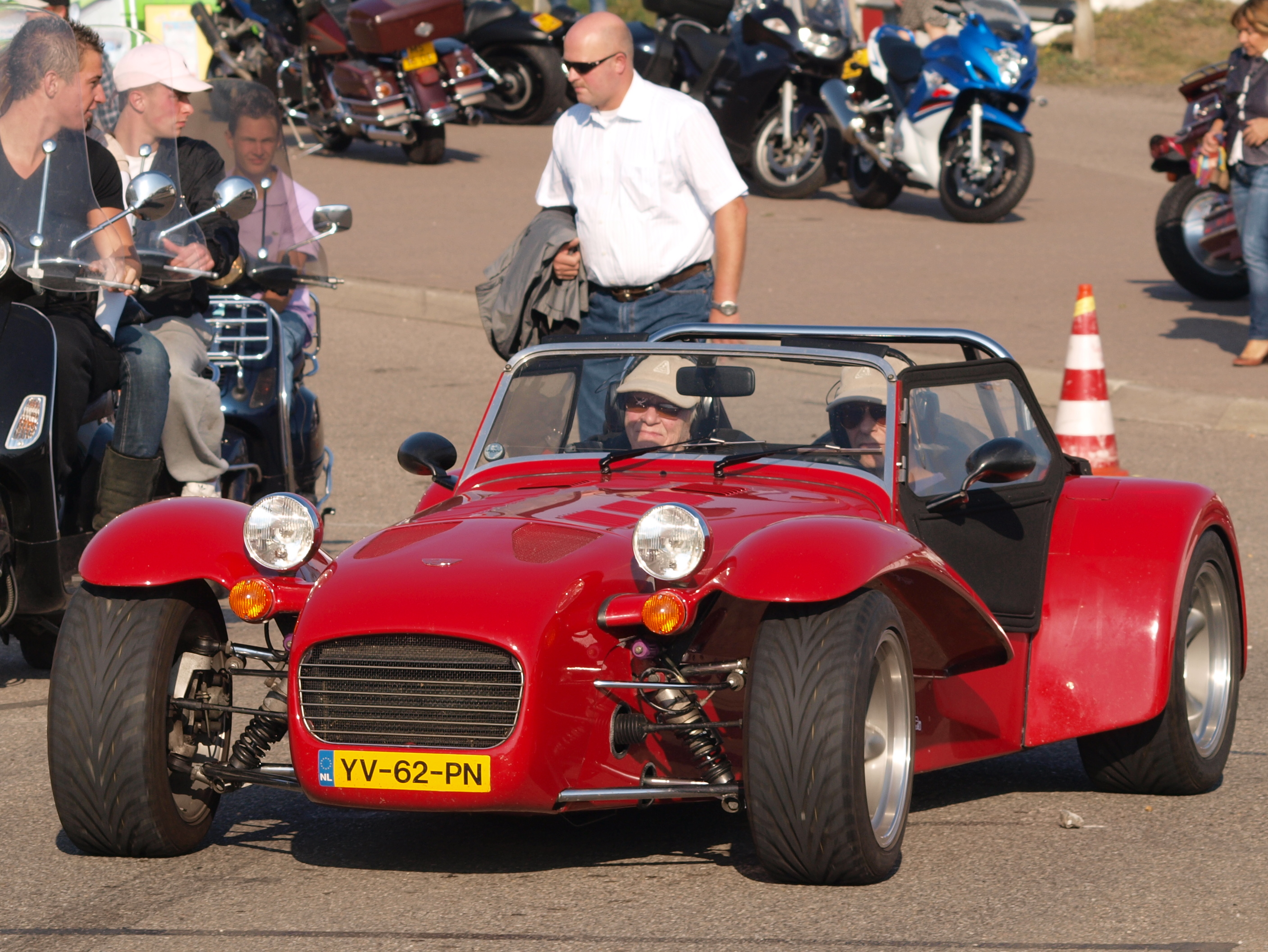 Photographed at the Nationaal Oldtimer Festival Zandvoort 2009, The Netherlands. OLYMPUS DIGITAL CAMERA